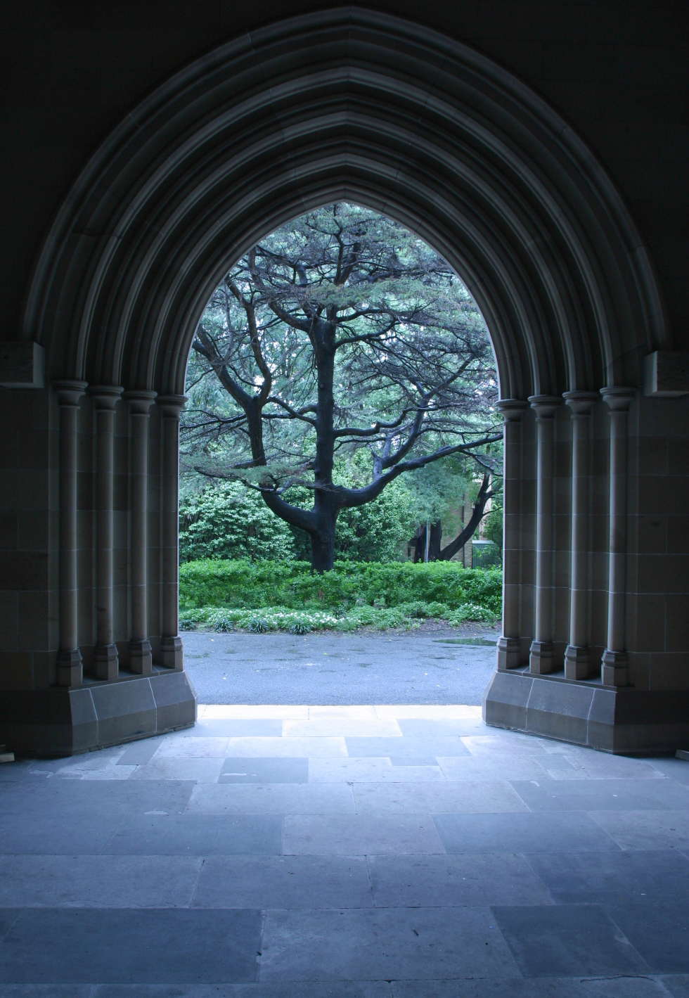 Freehill Tower Foyer, St John's College, University of Sydney. Author: John Polding